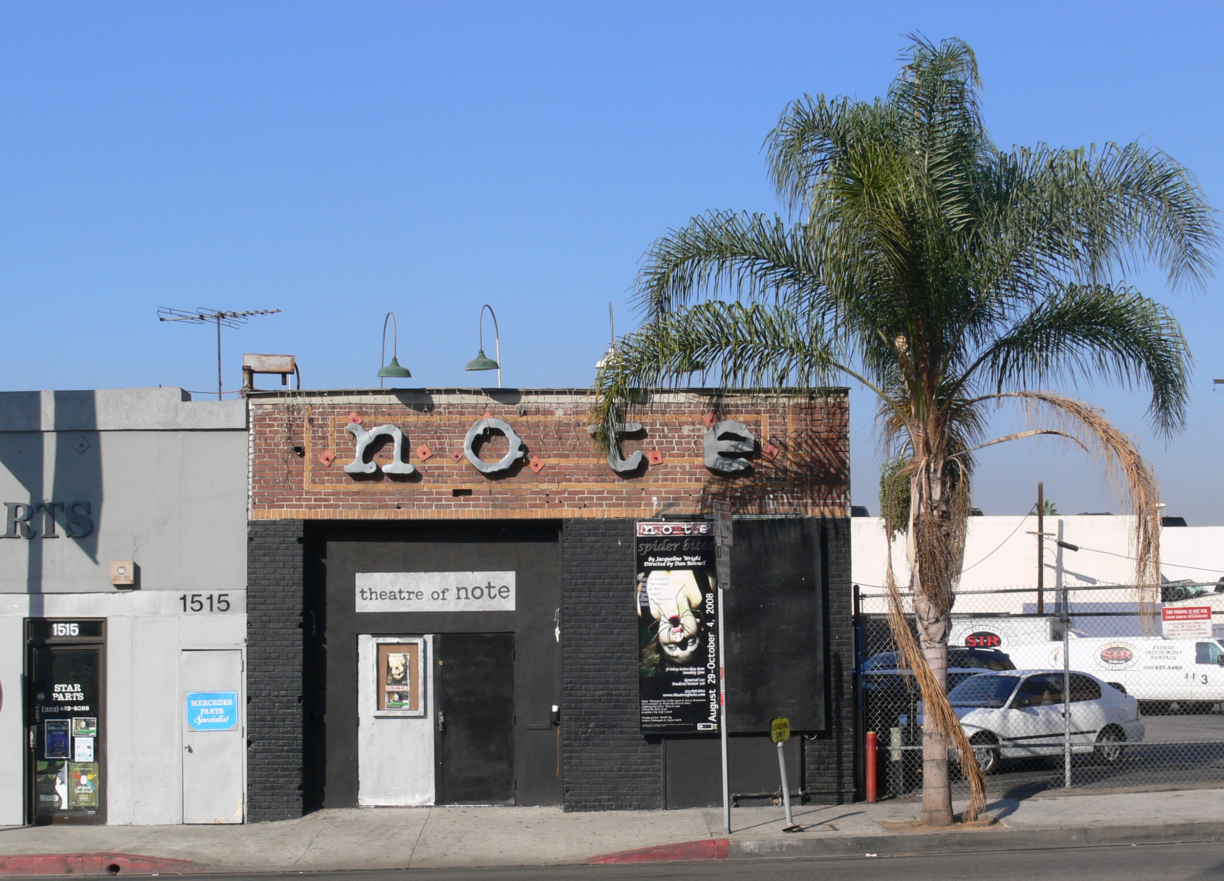 Theatre of Note, 1517 N Cahuenga Boulevard, Hollywood, Los Angeles, California